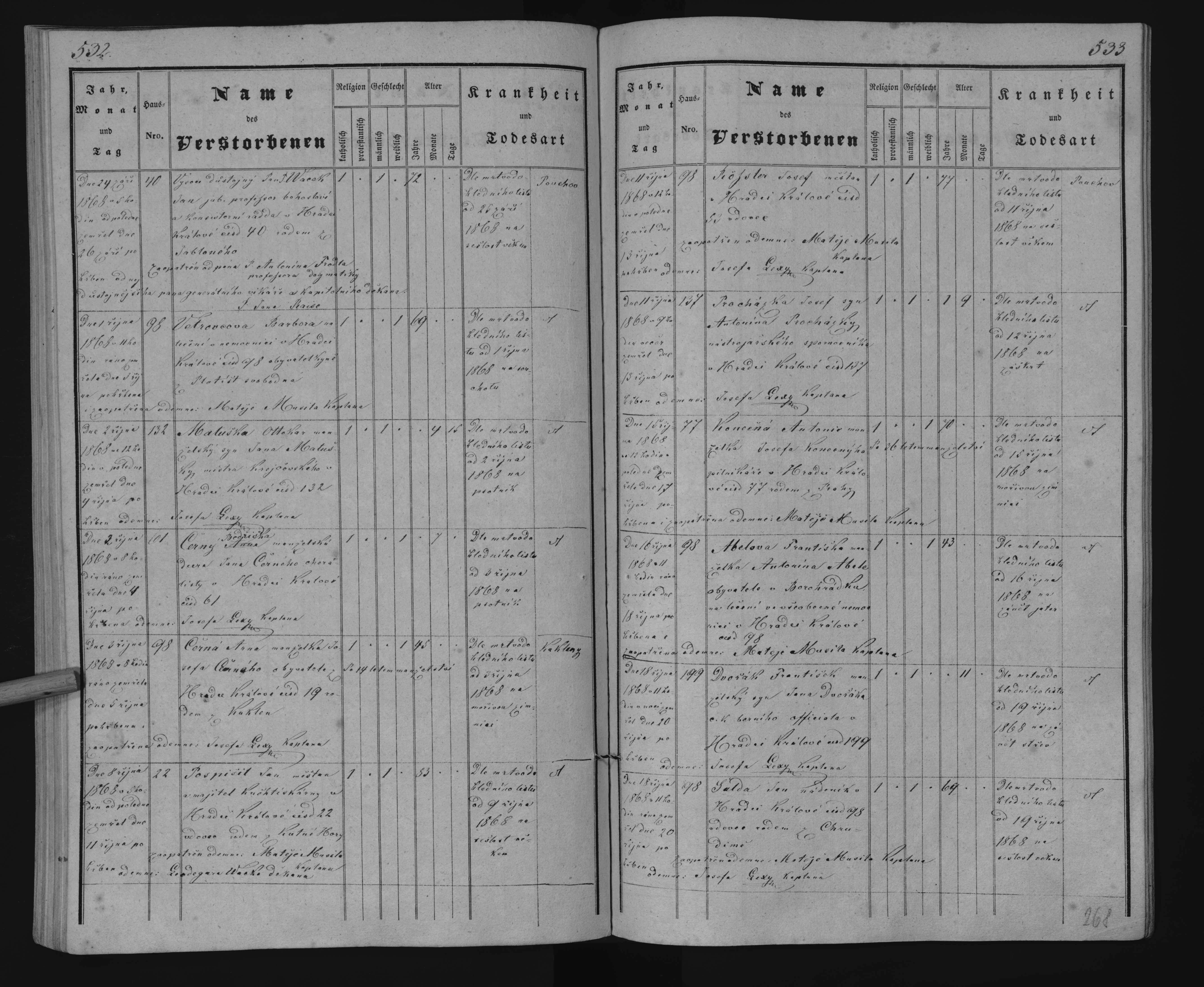 Page 269 of a death register of the Roman Catholic parish of Hradec Králové, covering a period from 1846 till 1875. The last record refers to a printwork owner and publisher Jan (Hostivít) Pospíšil (1785-1868)